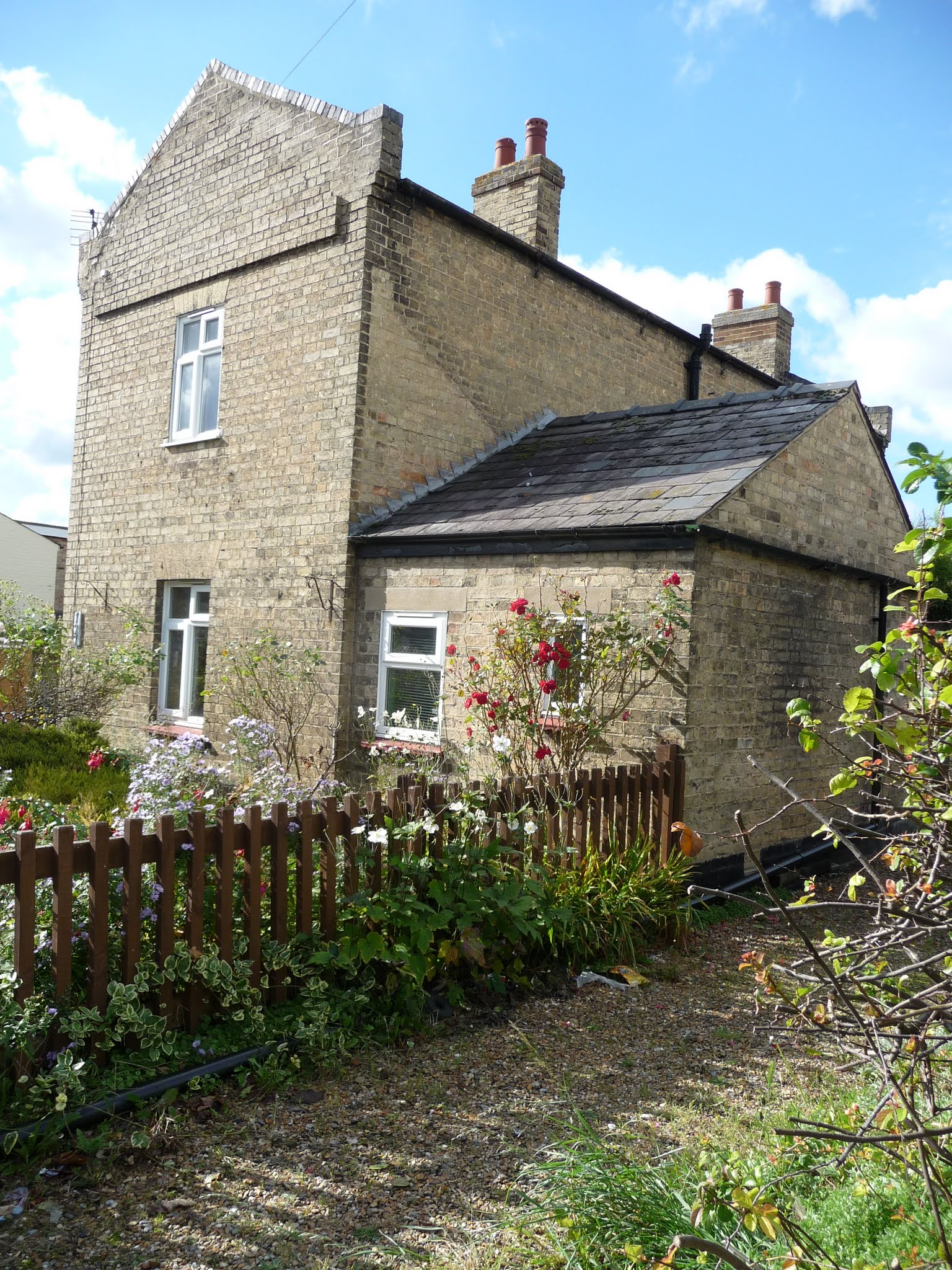 This is a photograph of the original railway station house in Cherry Hinton, Cambridge, which served as a Gate House for the level crossing after the railway station was closed in 1854. It was purchased in 2013 as a private residence.